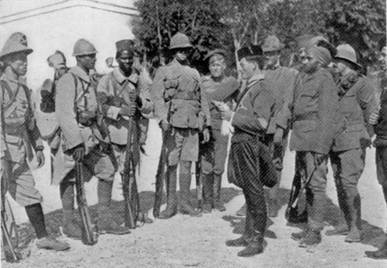 The Entente in Macedonia. From left to right: a soldier from Indochina, a Frenchman, a Senegalese, an Englishman, a Russian, an Italian, a Serb, a Greek and an Indian.